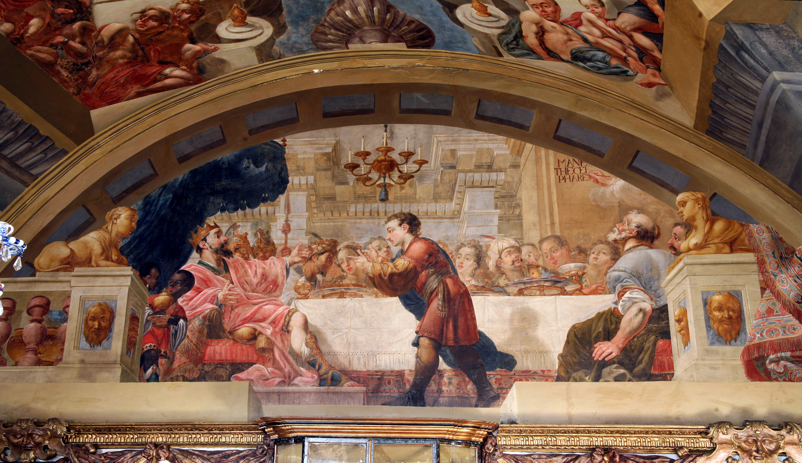 Václav Jindřich Nosecký and Michael Václav Halbax, Belshazzar's Feast, Zákupy Castle